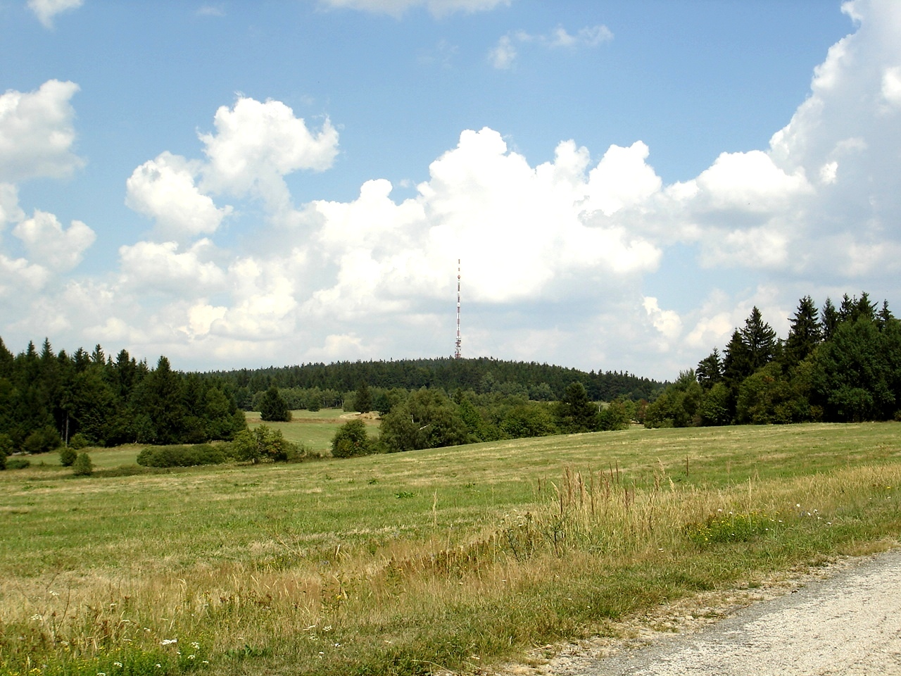 Photo Javorice 2007